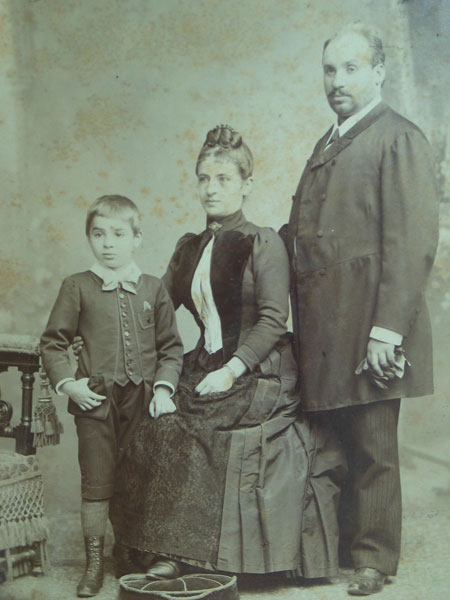 Photo of German and Israeli musician Leo Kestenberg with his parents